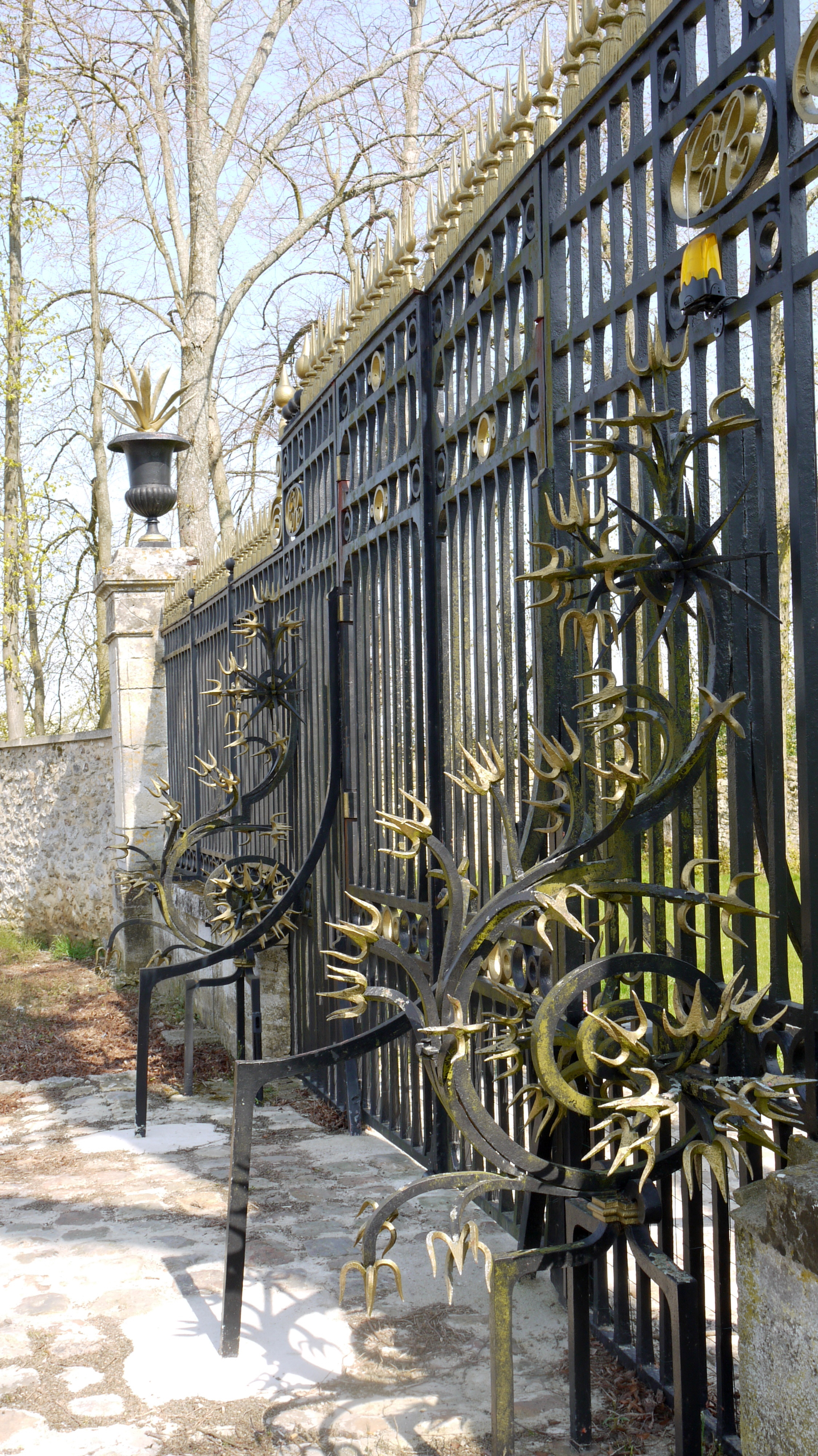 Gate of chateau de Maudétour, Maudétour en Vexin, Val d'Oise, France